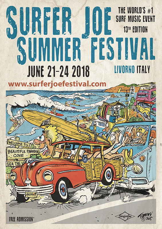 Poster of Surfer Joe Summer Festival 2018 by Tommaso Eppesteingher